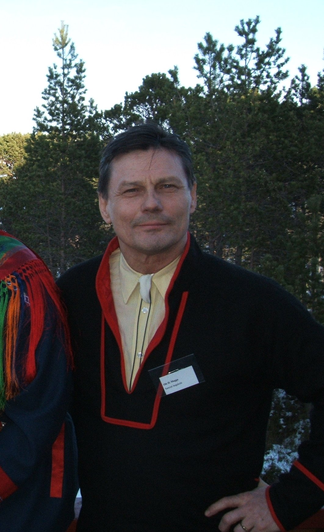 Ole Henrik Magga, first president of the Norwegian Sami Parliament (Samediggi) Author: Trond Trosterud